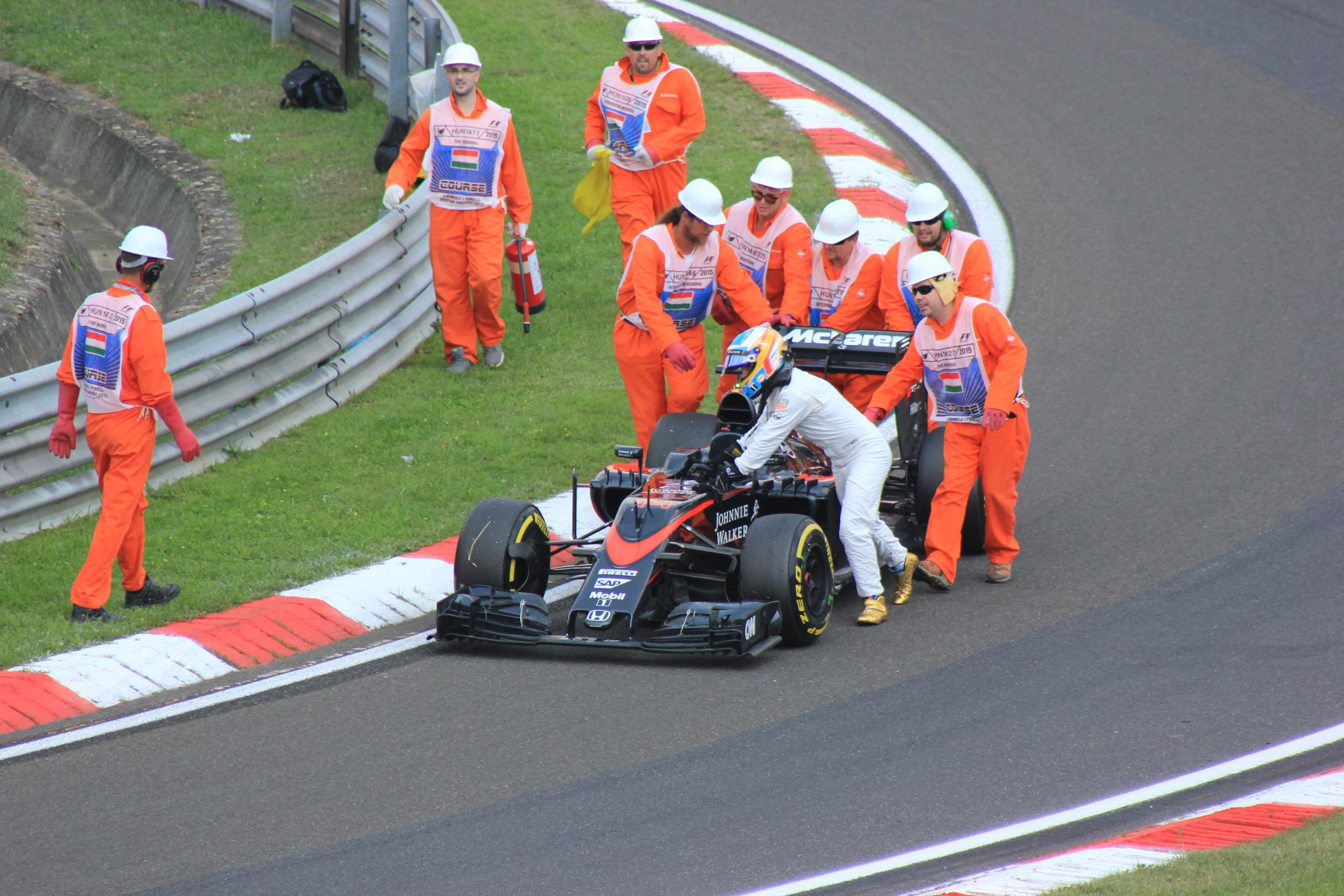 Fernando Alonso pushing his car back to pit lane at the 2015 Hungarian Grand Prix